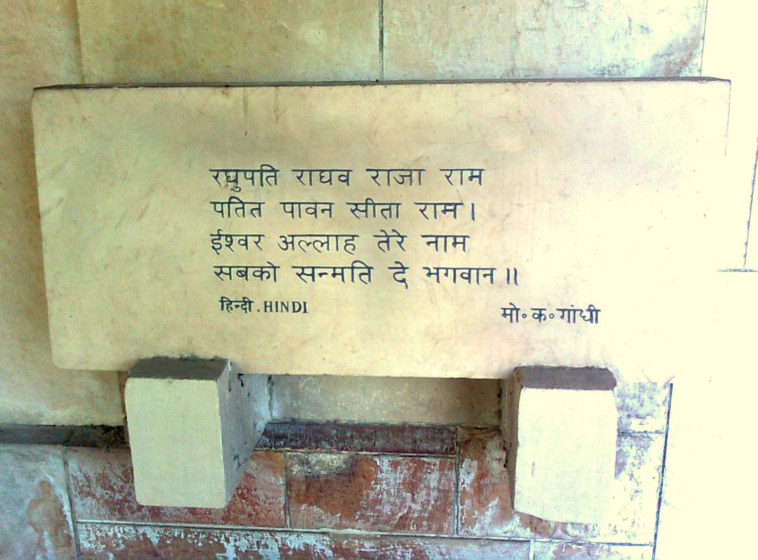 An Inscribing at Raj Ghat